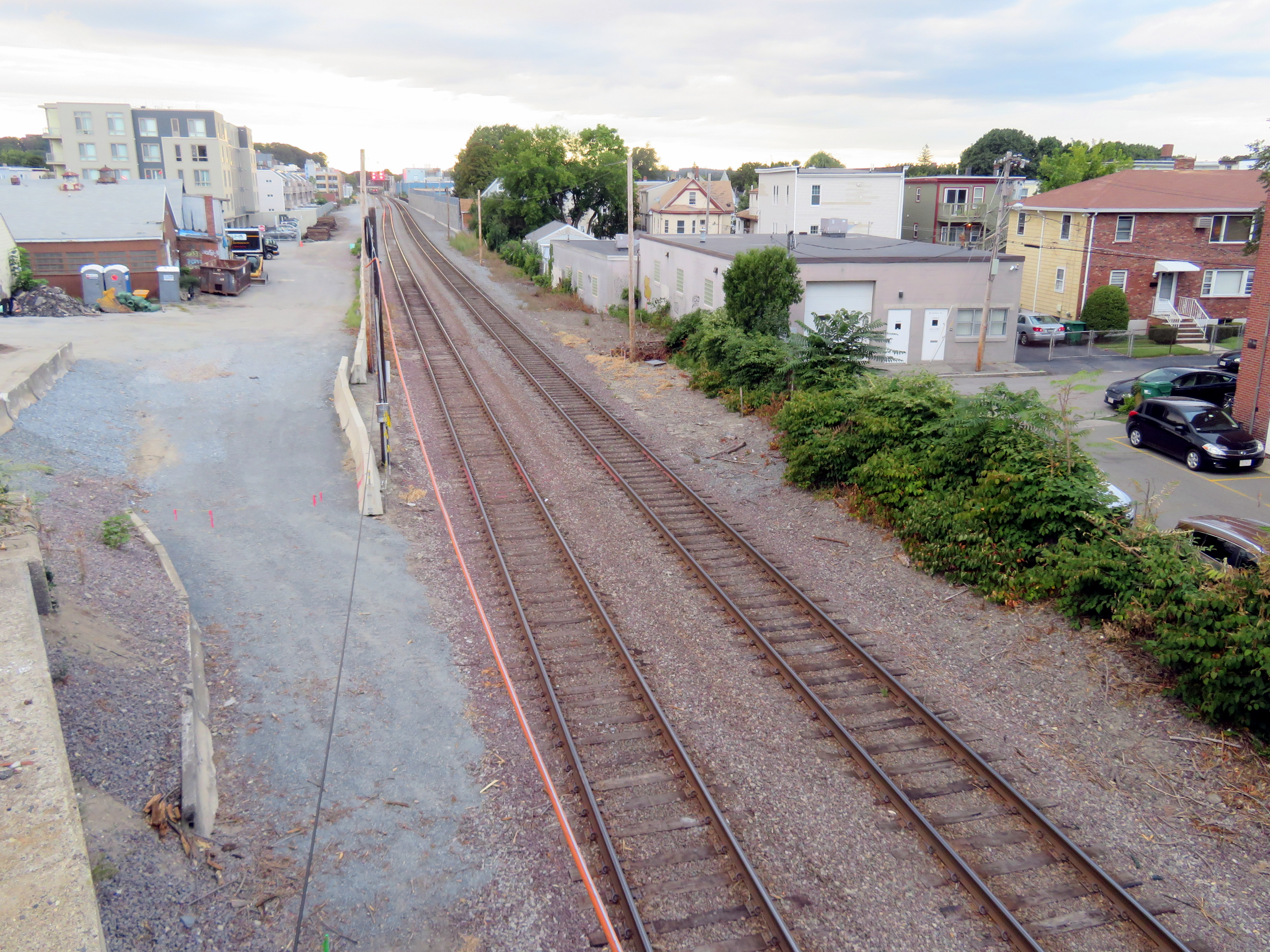 Ball Square station site cleared of buildings, seen in August 2018